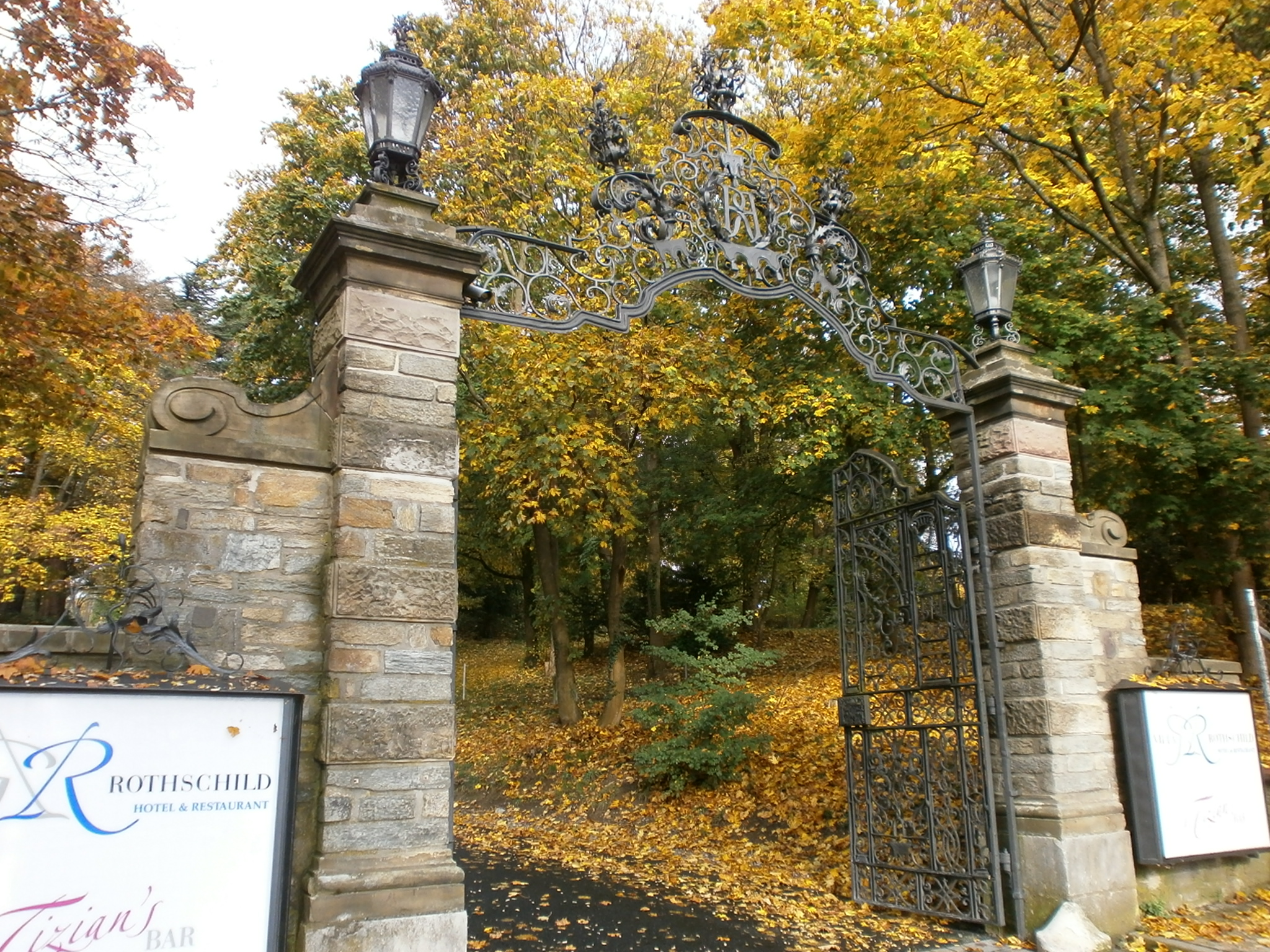 Portal Villa Rothschild